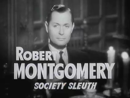 Robert Montgomery in Haunted Honeymonn (1940)